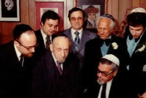 Photo taken at 1974 ketuba signing (pre-wedding ceremony) for rabbinical student Arnold Resnicoff, featuring Rabbi Philip Alstat, along with other Rabbis (Harlan Wechsler, Joseph Brodie,Joseph Simckes, and Albert L. Lewis plus Jack Resnicoff (Arnold Resnicoff's father).